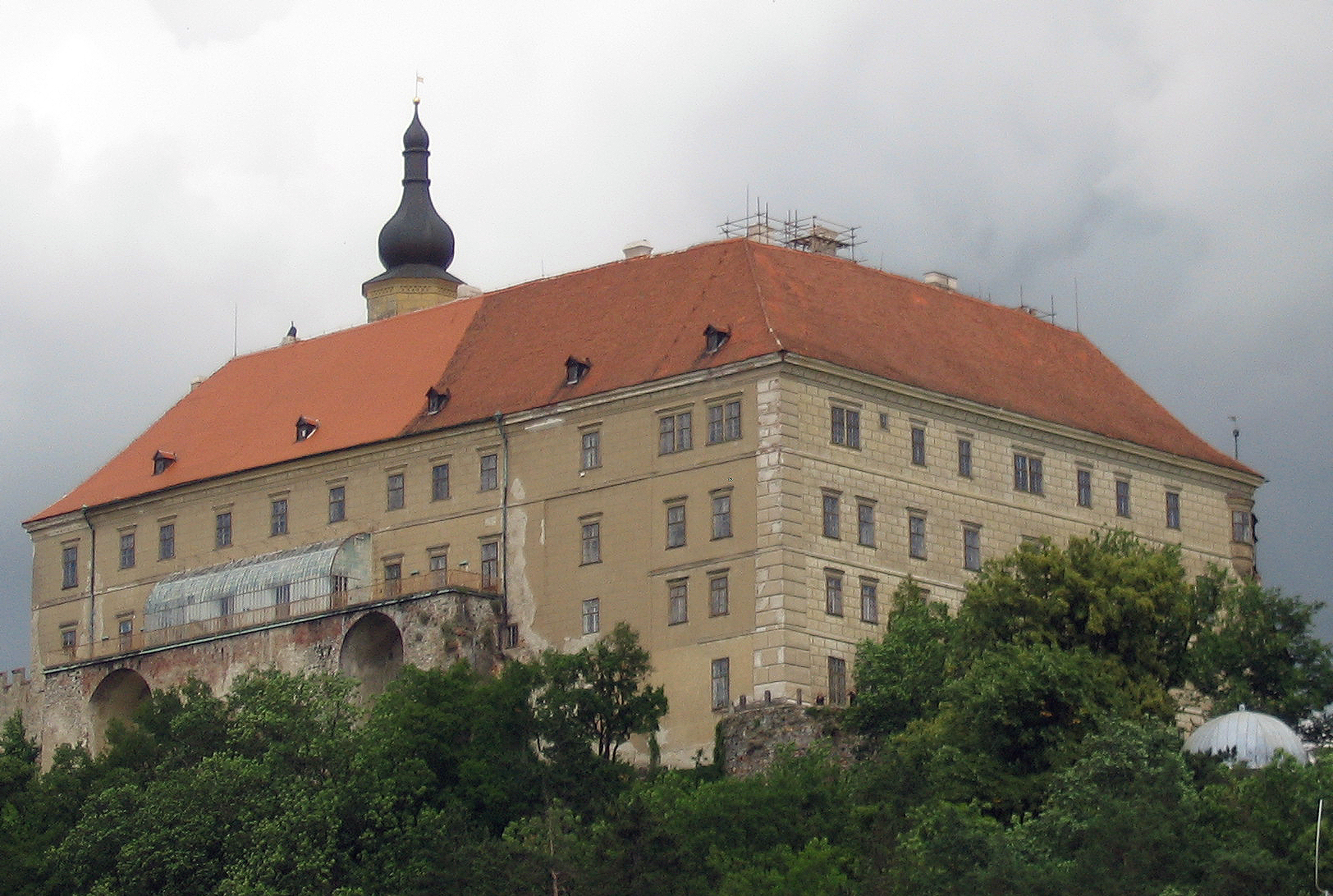 Náměšť nad Oslavou chataeu.